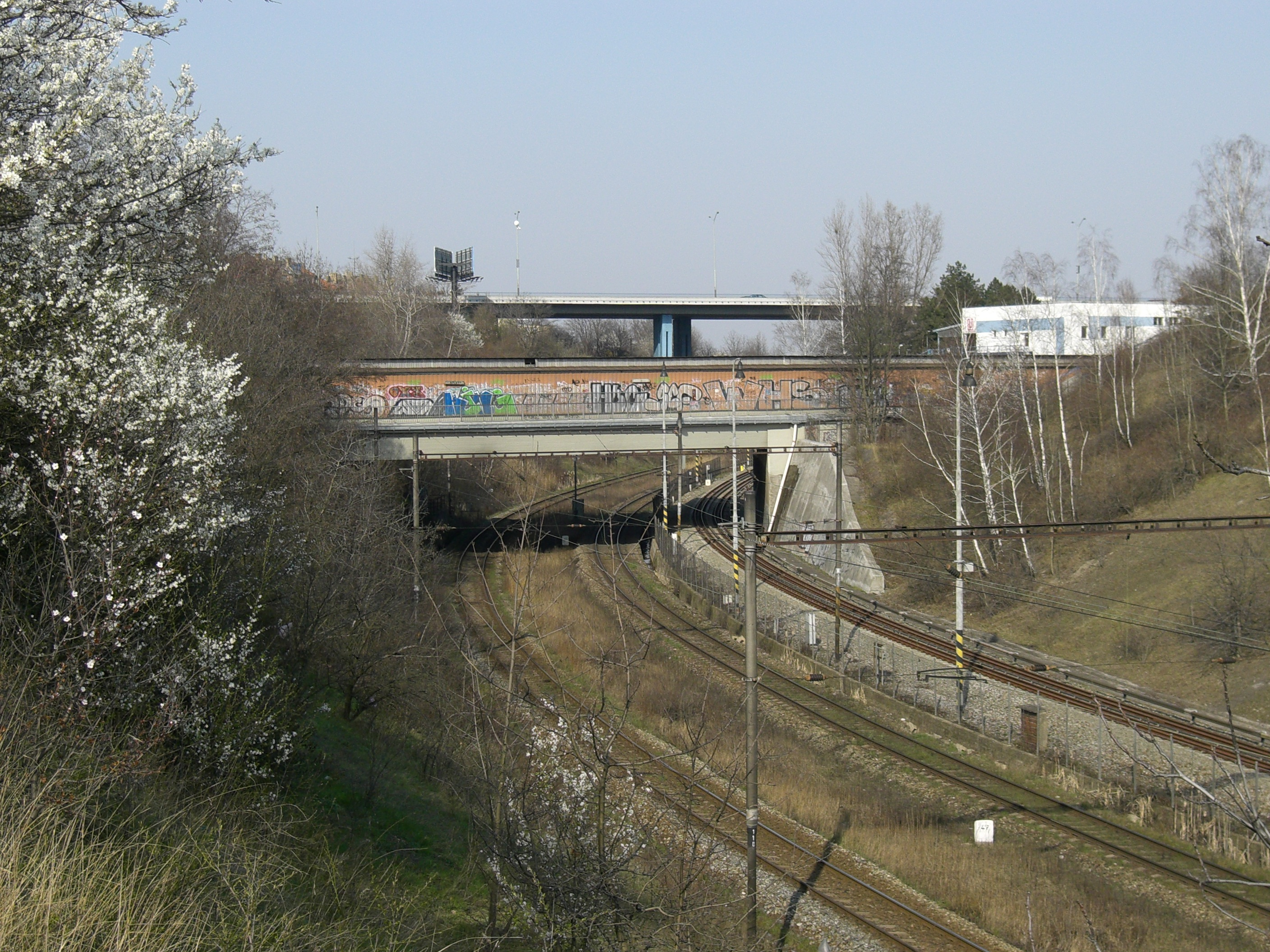 Prague Metro bridge near station Kačerov